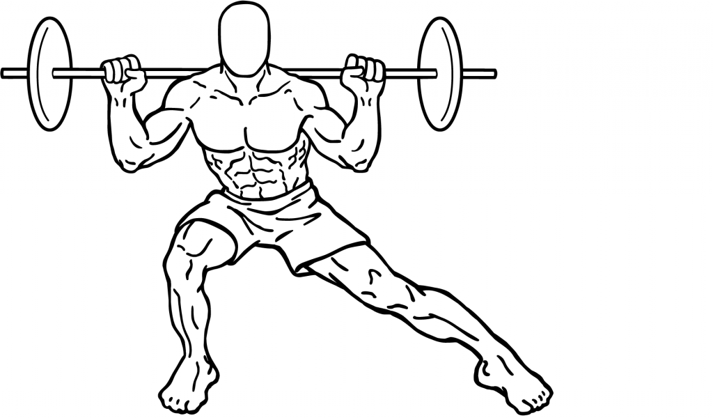 an exercise of thigh